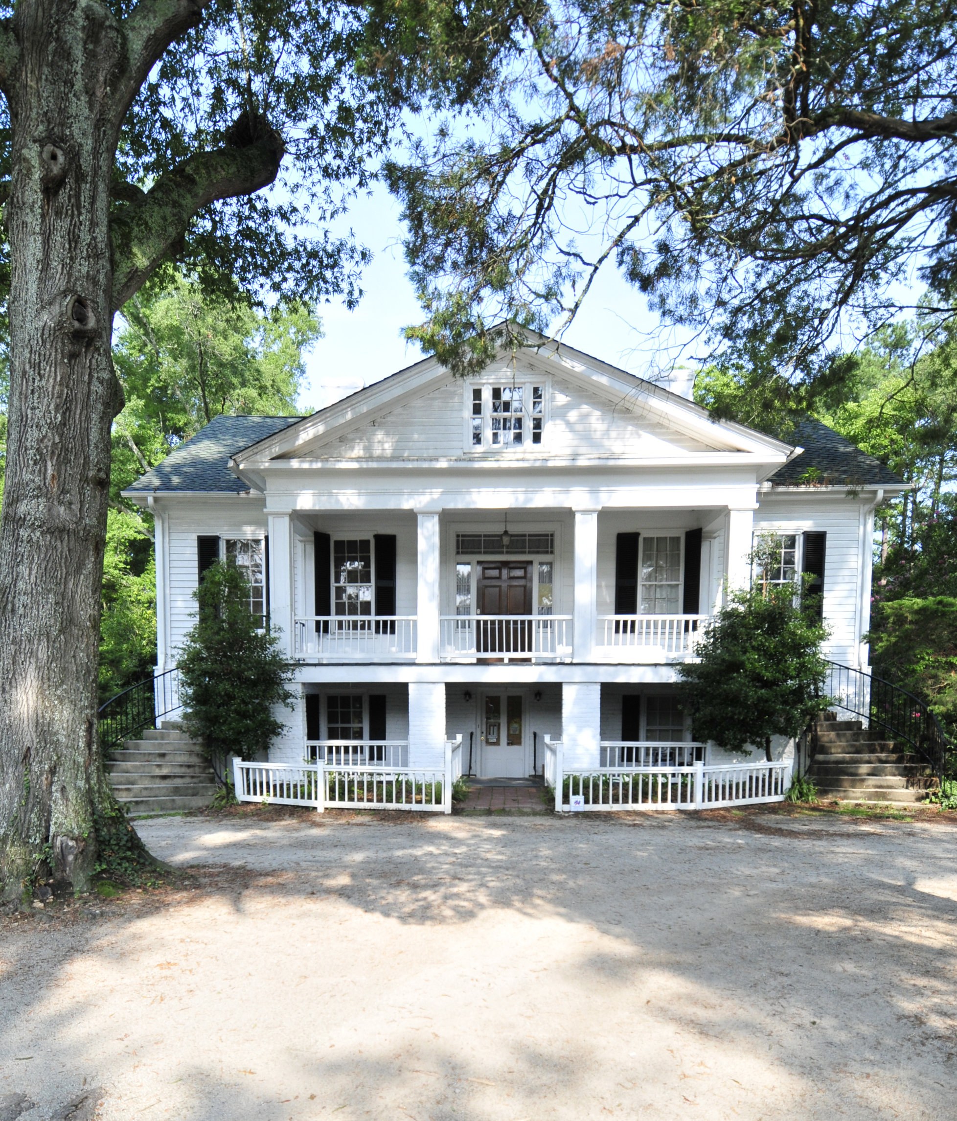 Hunstanton